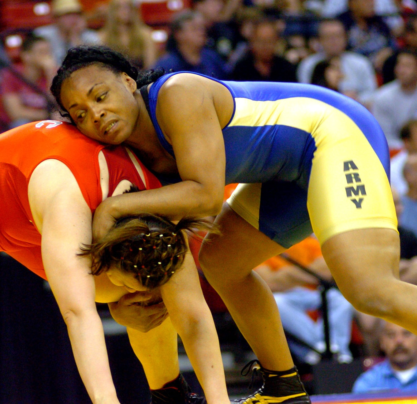 U.S. Army World Class Athlete Program wrestler Sgt. Iris Smith, a former world champion, is ranked No. 1 in the women's 72-kilogram/158.5-pound freestyle division of 's latest U.S. wrestling rankings. Photo by Tim Hipps, FMWRC Public Affairs